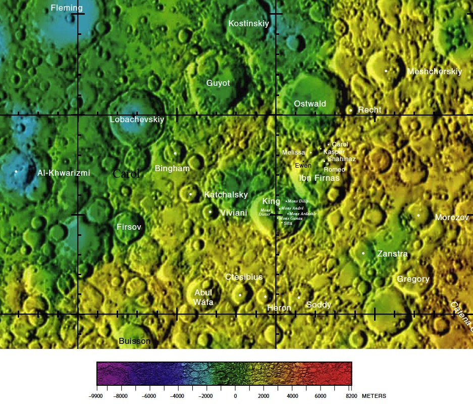 Part of the USGS far side lunar chart